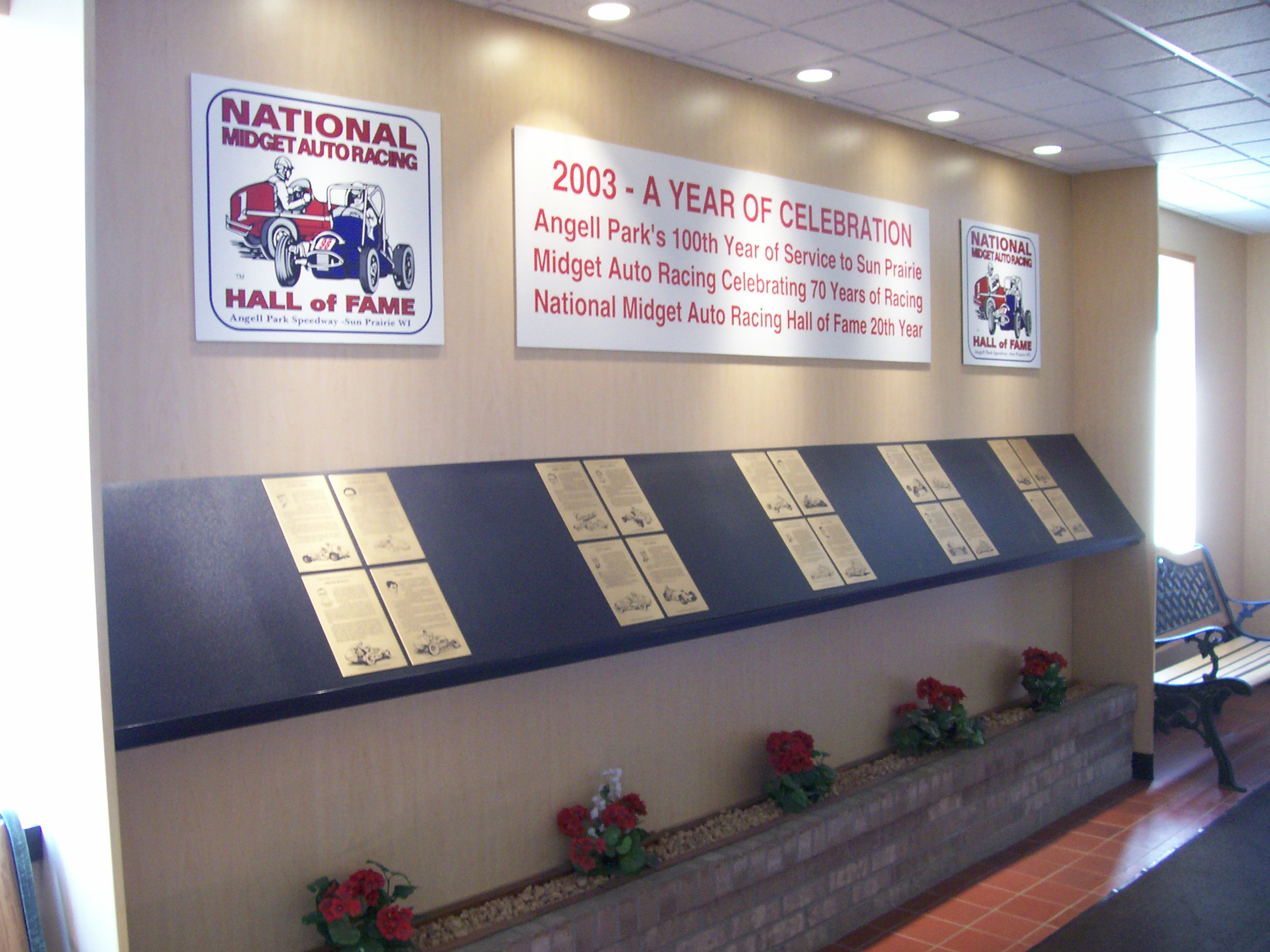 A wing at the National Midget Auto Racing Hall of Fame in Sun Prairie, Wisconsin, USA.National Midget Auto Racing Hall of Fame/Angell Park 06.10.07